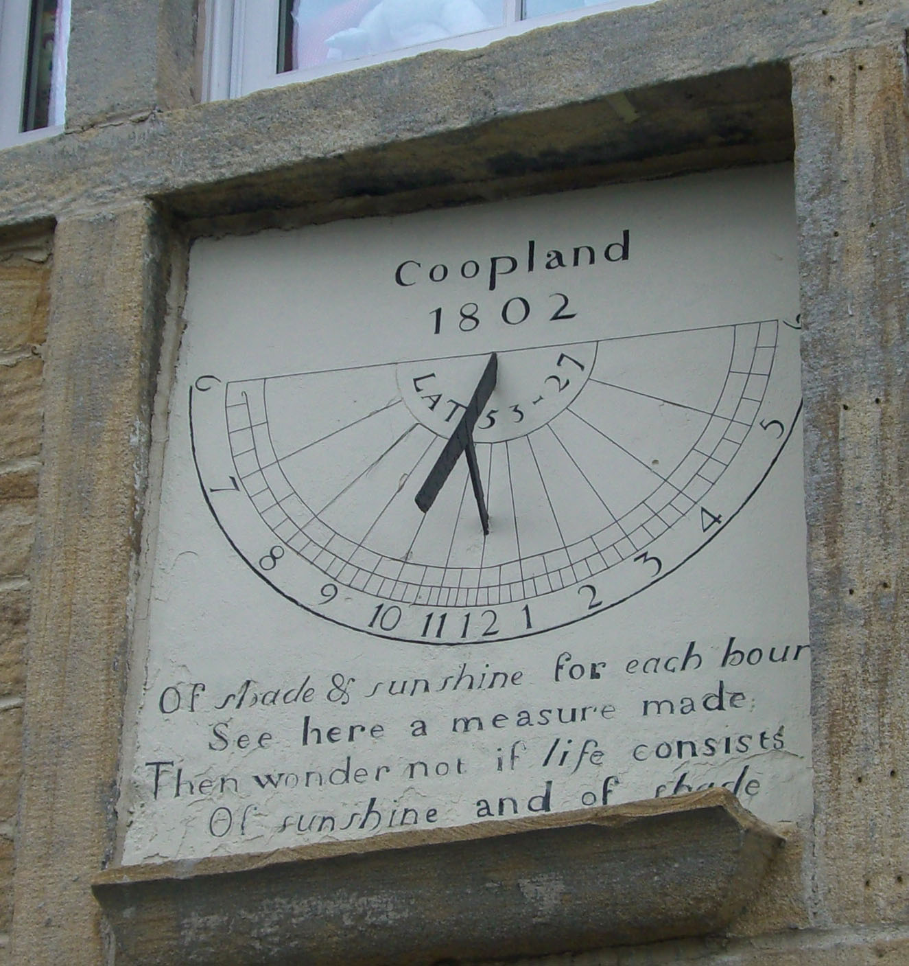 Sundial over the front door of Dial House, Ben Lane, Sheffield, South Yorkshire